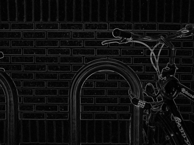 Grayscale image of a brick wall & bike rack convolved with Scharr operator